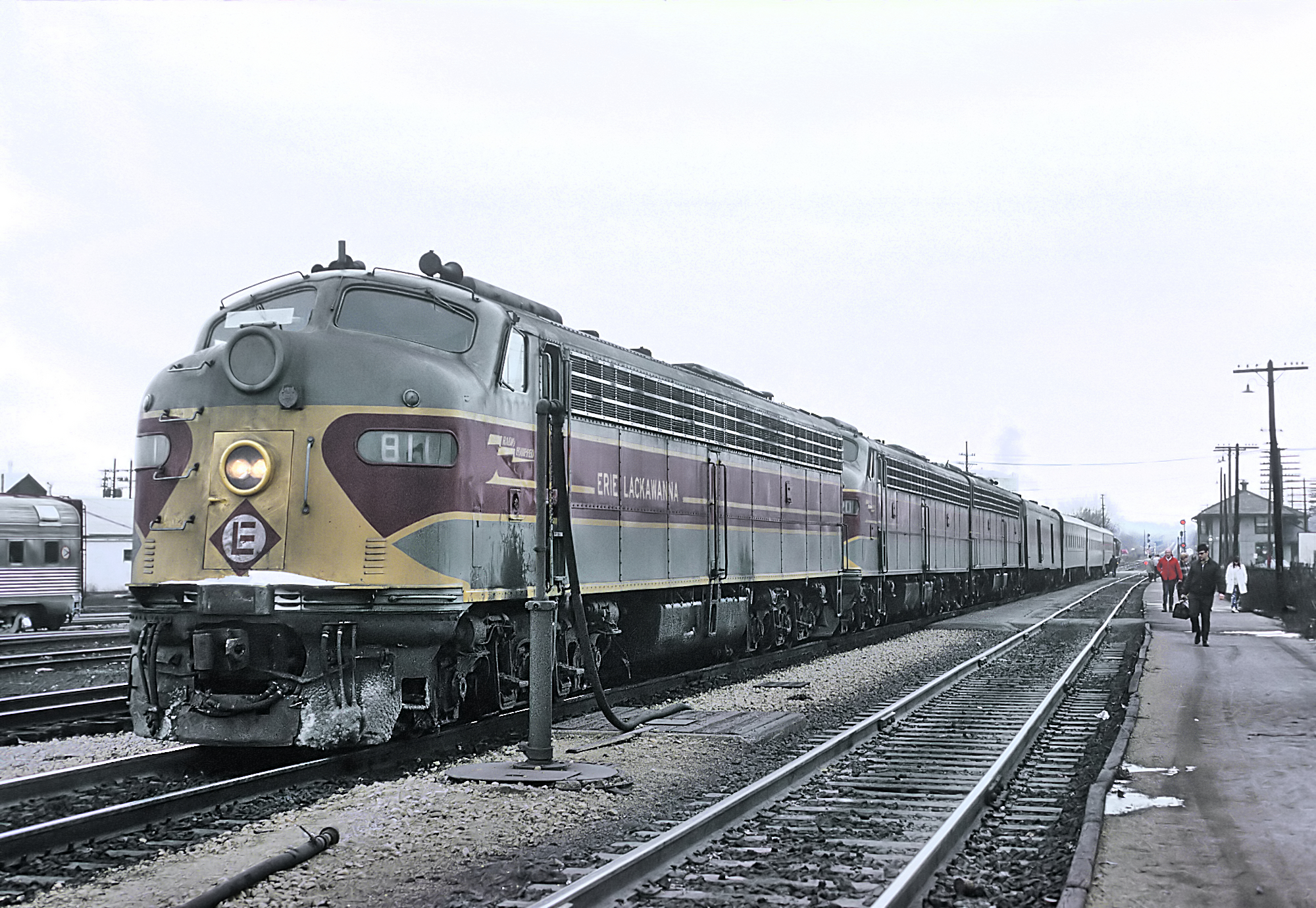 Train 5, The Lake Cities, stopped at Huntington, IN on December 21, 1969. A Roger Puta Photograph